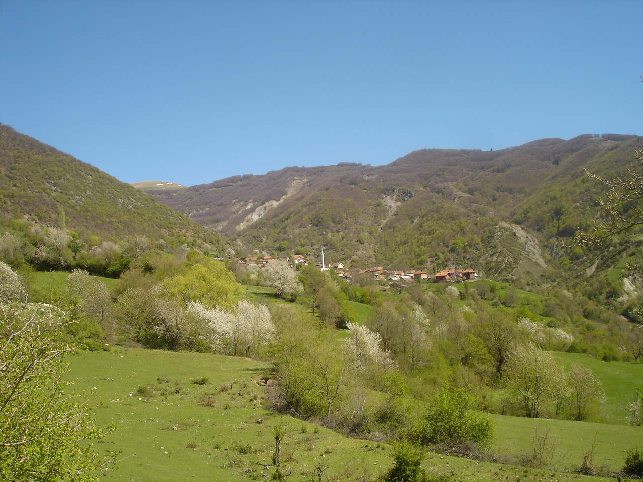 village of Elevci in Centar Župa municipality, Debar region, Macedonia